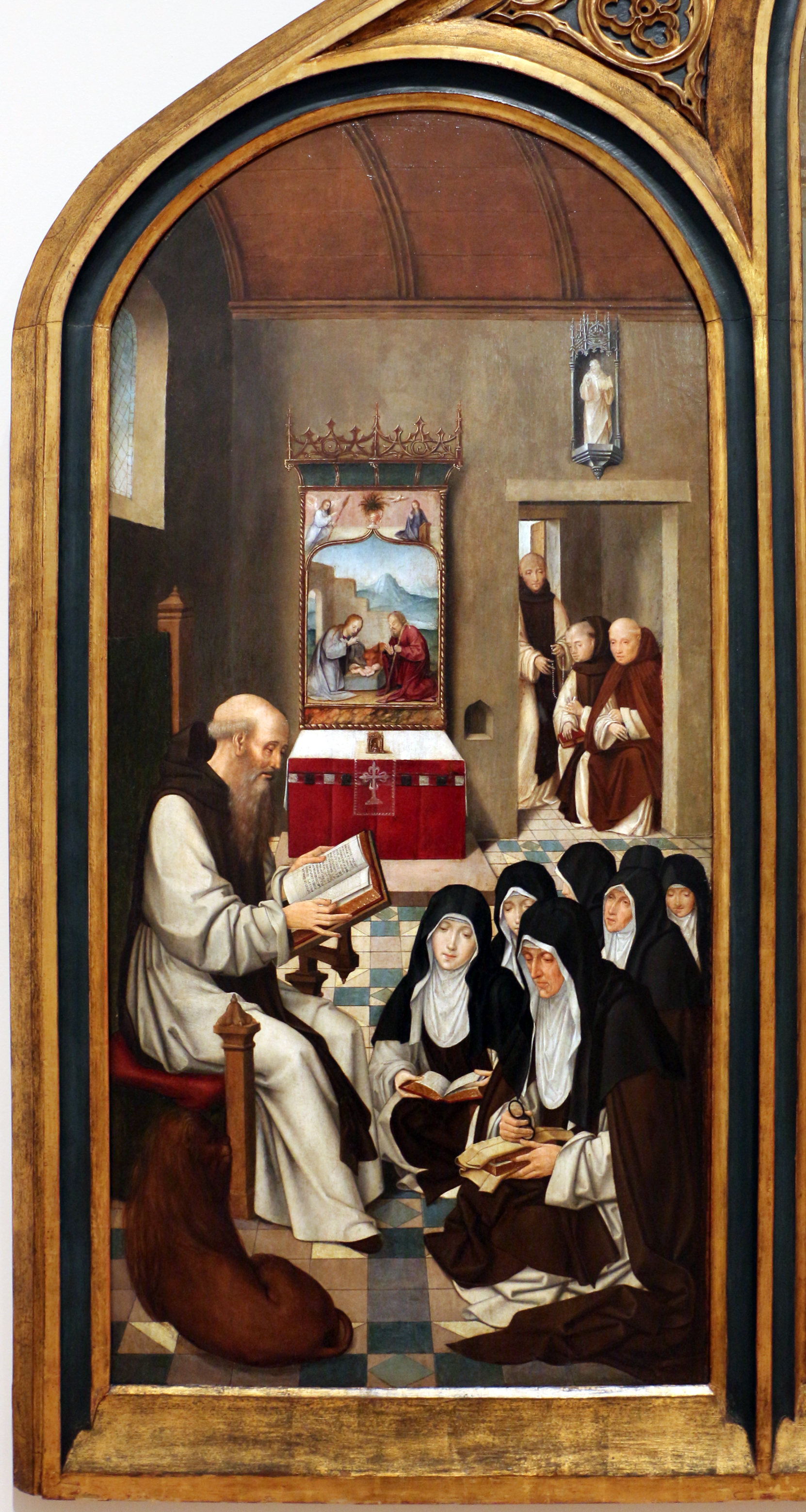 Renaissance paintings from Portugal in the Museu Nacional de Arte Antiga